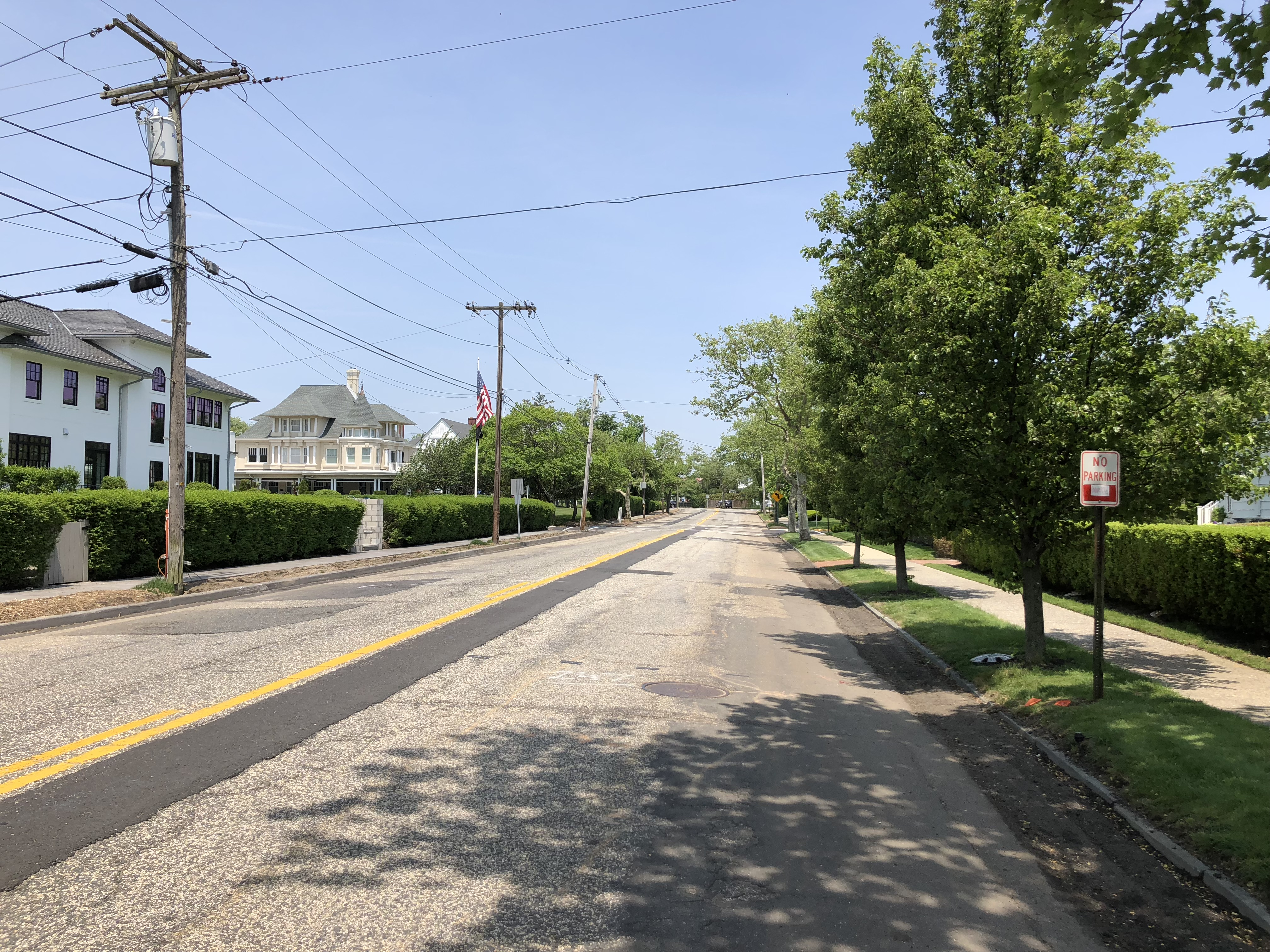 View north along New Jersey State Route 71 (Norwood Avenue) between Elberon Avenue and Allen Avenue in Allenhurst, Monmouth County, New Jersey